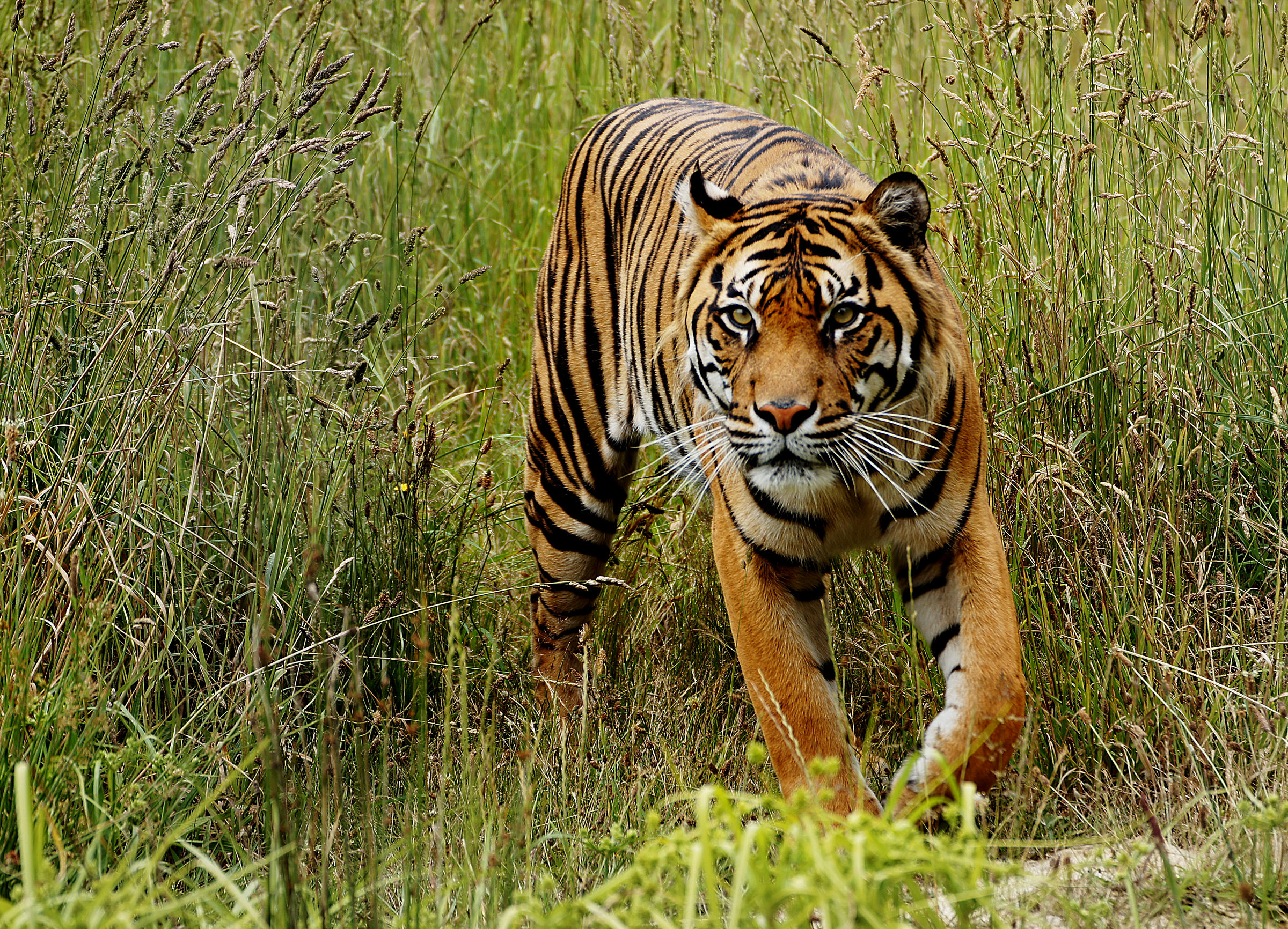 Today, the last of Indonesia’s tigers—now less than 400—are holding on for survival in the remaining patches of forests on the island of Sumatra. Accelerating deforestation and rampant poaching mean this noble creature could end up like its extinct Javan and Balinese relatives. Sumatran tigers are the smallest surviving tiger subspecies and are distinguished by heavy black stripes on their orange coats. They are protected by law in Indonesia, with tough provisions for jail time and steep fines. But despite increased efforts in tiger conservation—including law enforcement and antipoaching capacity—a substantial market remains in Sumatra and the rest of Asia for tiger parts and products. Sumatran tigers are losing their habitat and prey fast, and poaching shows no sign of decline.